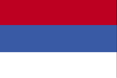 Flag with three horizontal stripes: red-blue-white